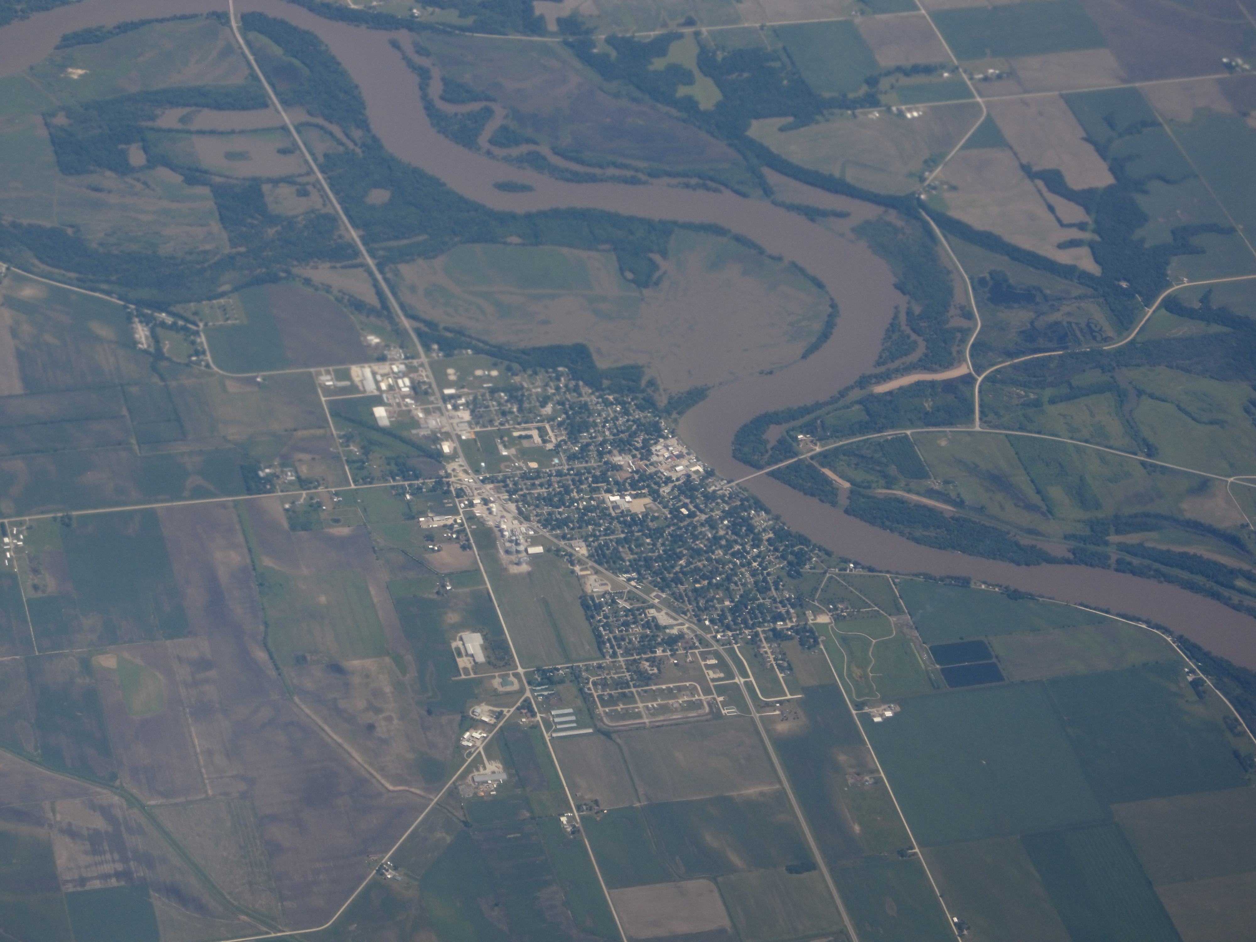 Wapello is a city in and the county seat of Louisa County, Iowa, United States. The population was 2,067 at the 2010 census. Wapello is part of the Muscatine Micropolitan Statistical Area.